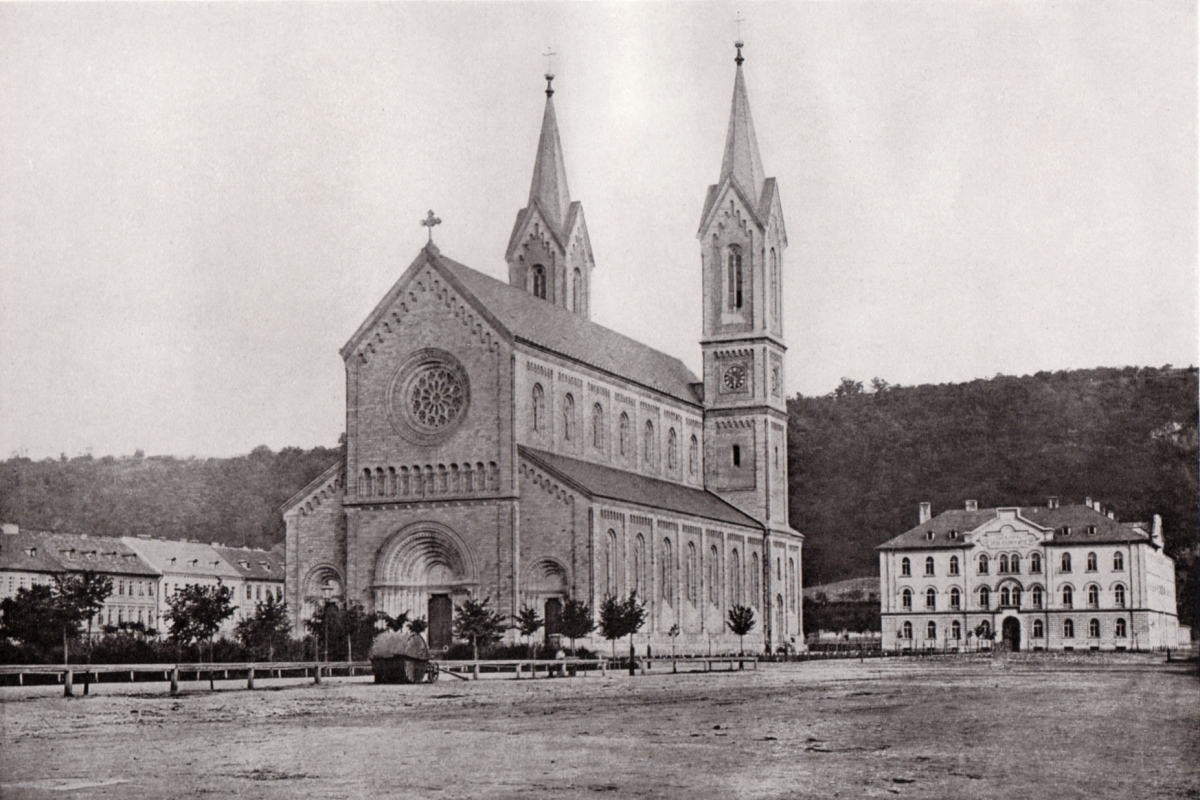 Prague - Karlín (Karolinenthal), Church of Saints Cyril and Methodius, architect Vojtěch Ignác Ullmann and Karl Rösner